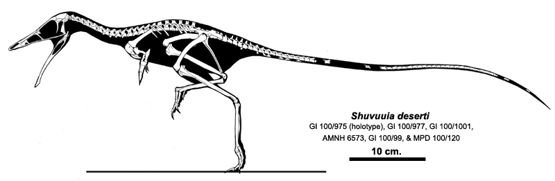 Skeletal reconstruction of Shuvuuia deserti